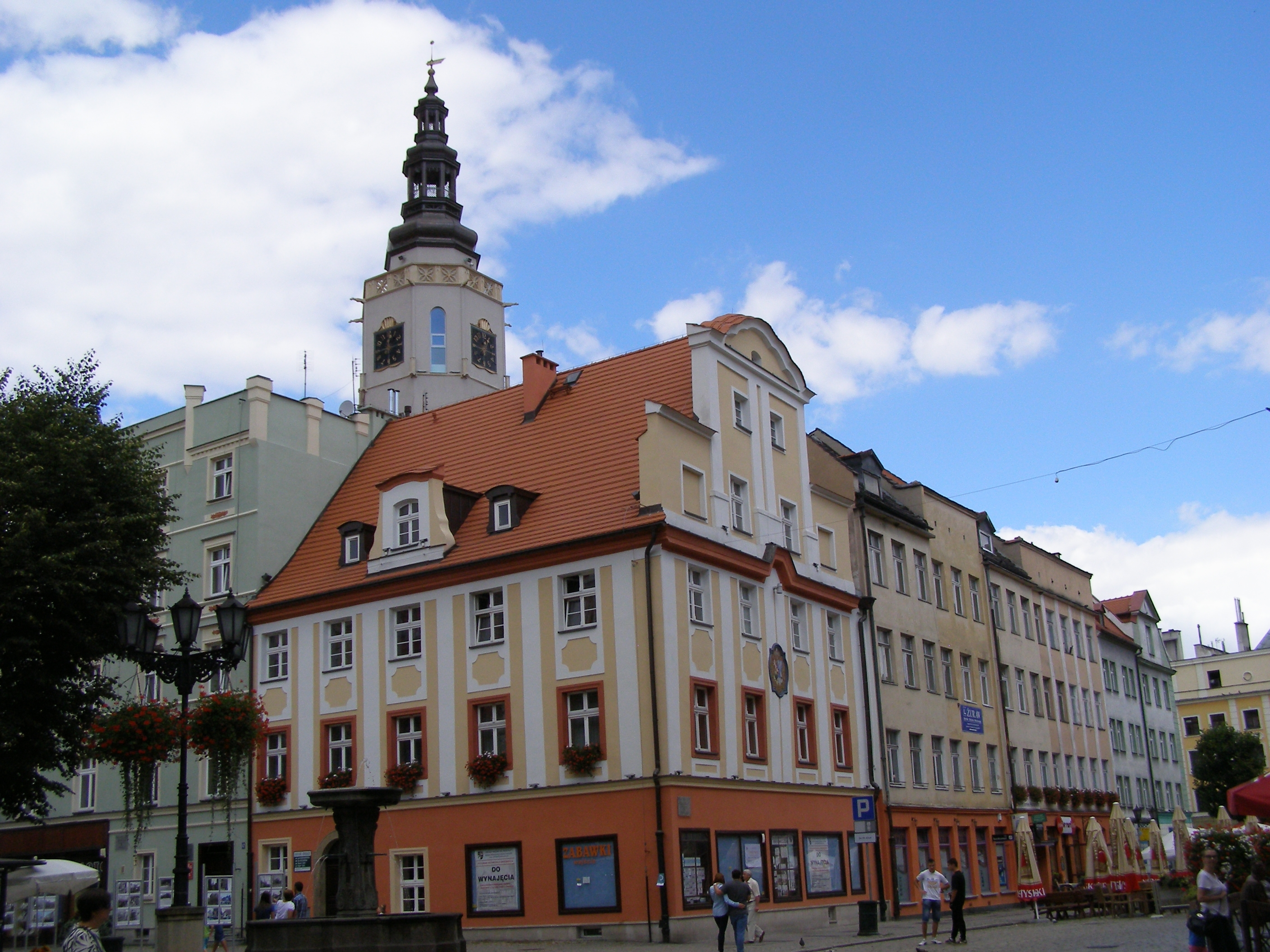 Świdnica - Market Square